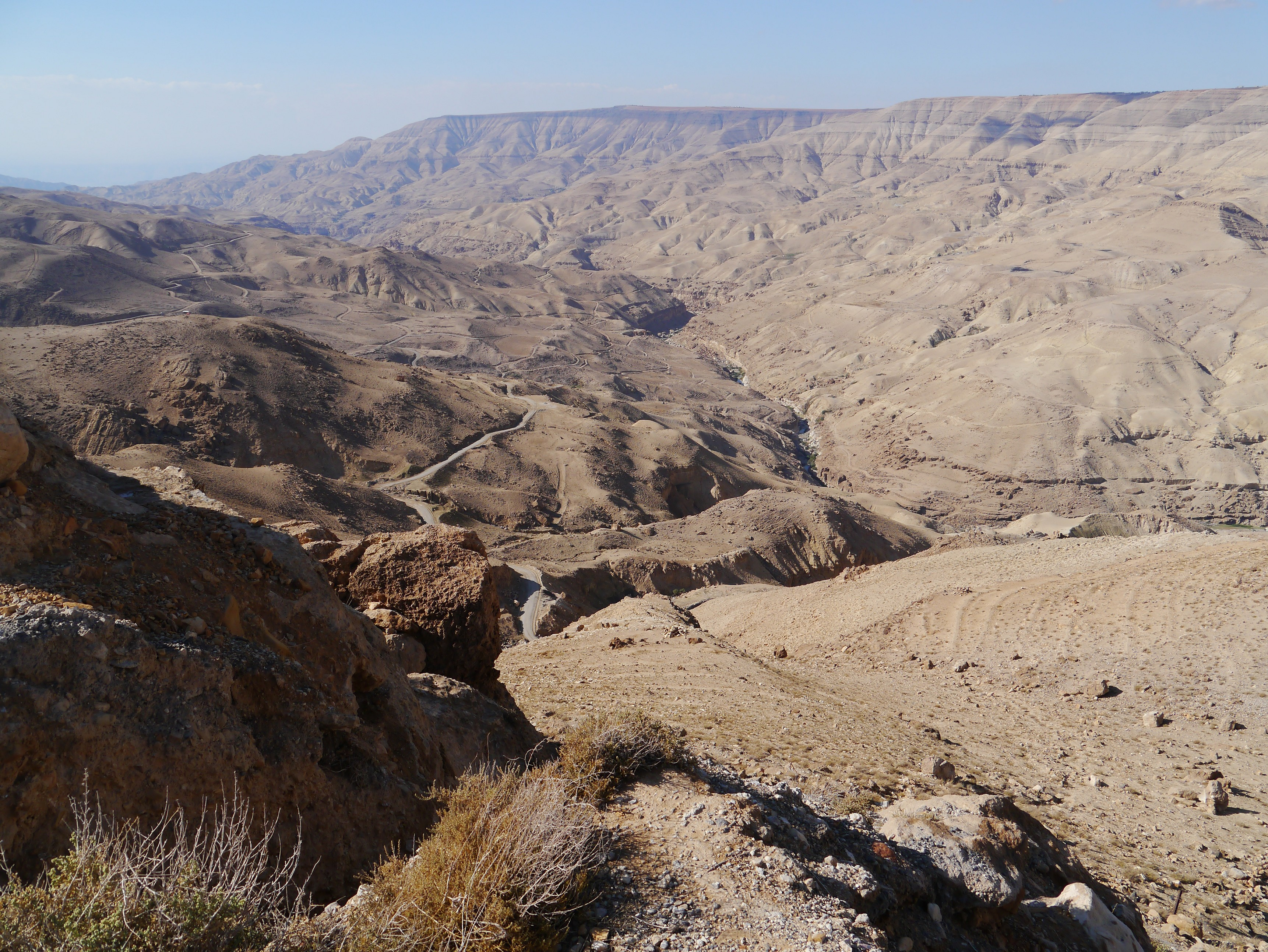 Mujib Valley, Western Jordan